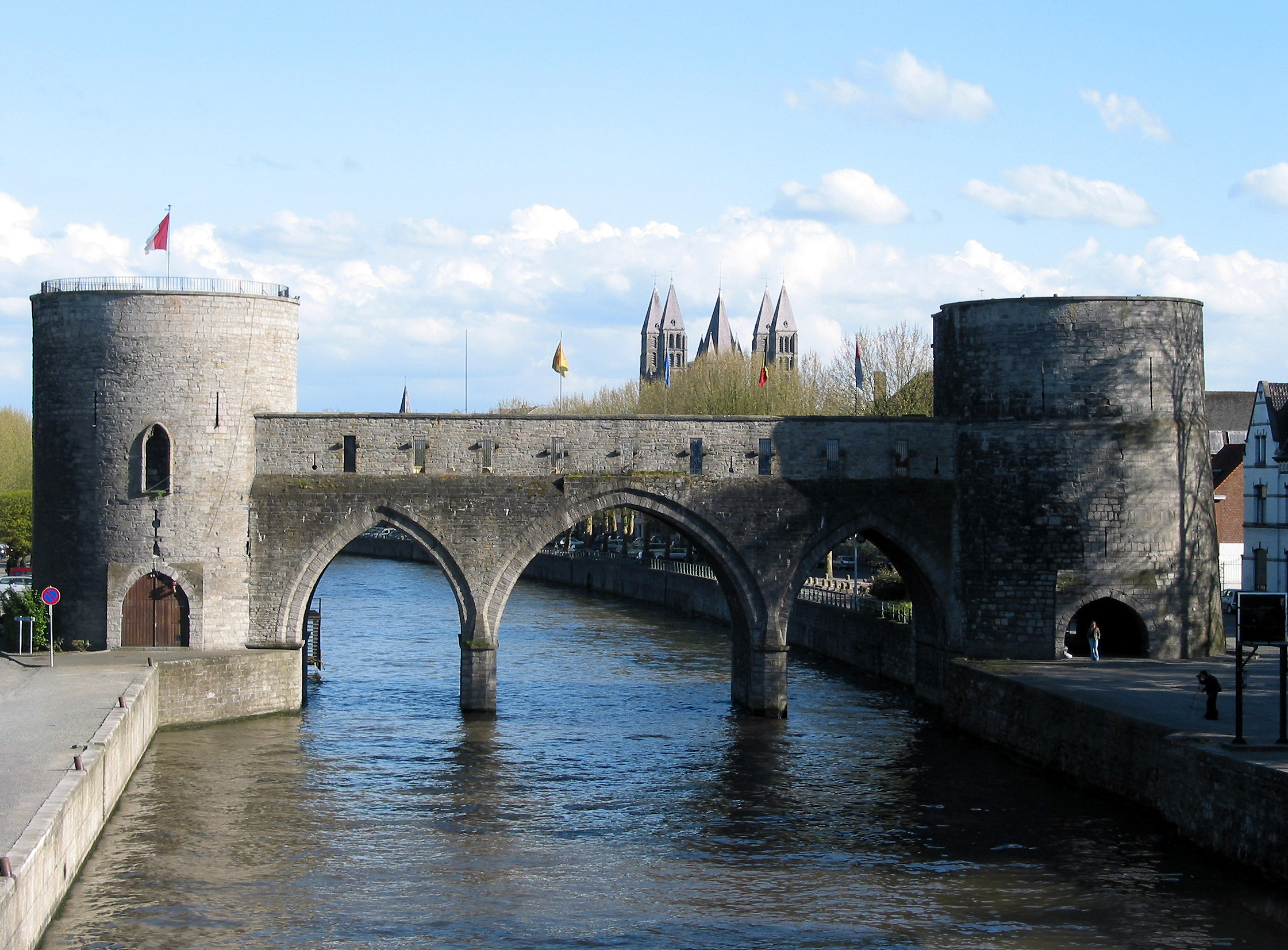 Tournai (Belgium), the "Pont des Trous" (bridge) on the Escaut river with Our Lady's cathedral as aim vision.